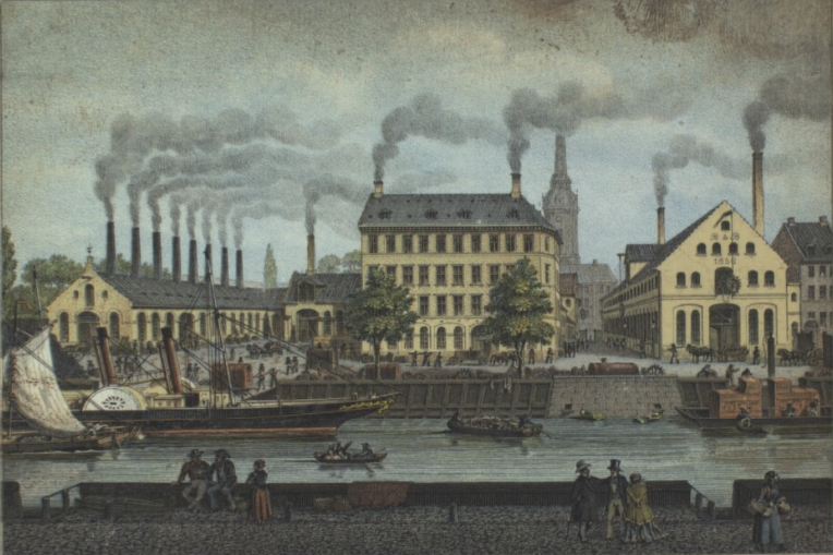 Ovengaden neden Vandet, Baumgarten & Burmeister